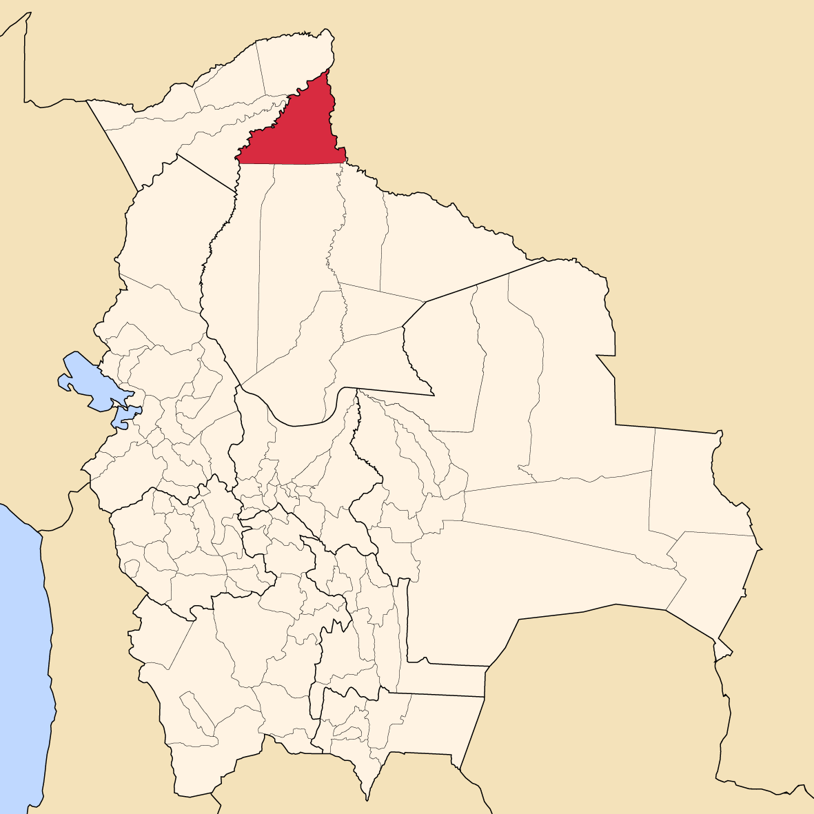 Map of Bolivia showing Vaca Díez province, Beni